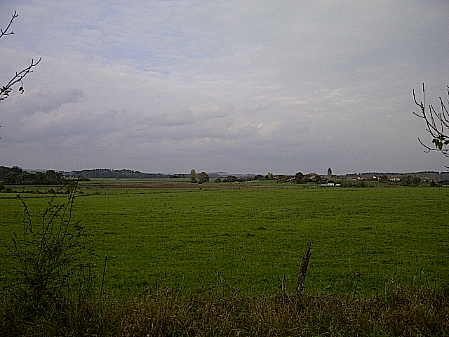 View over Tarquimpol and the former Etang de Lindre